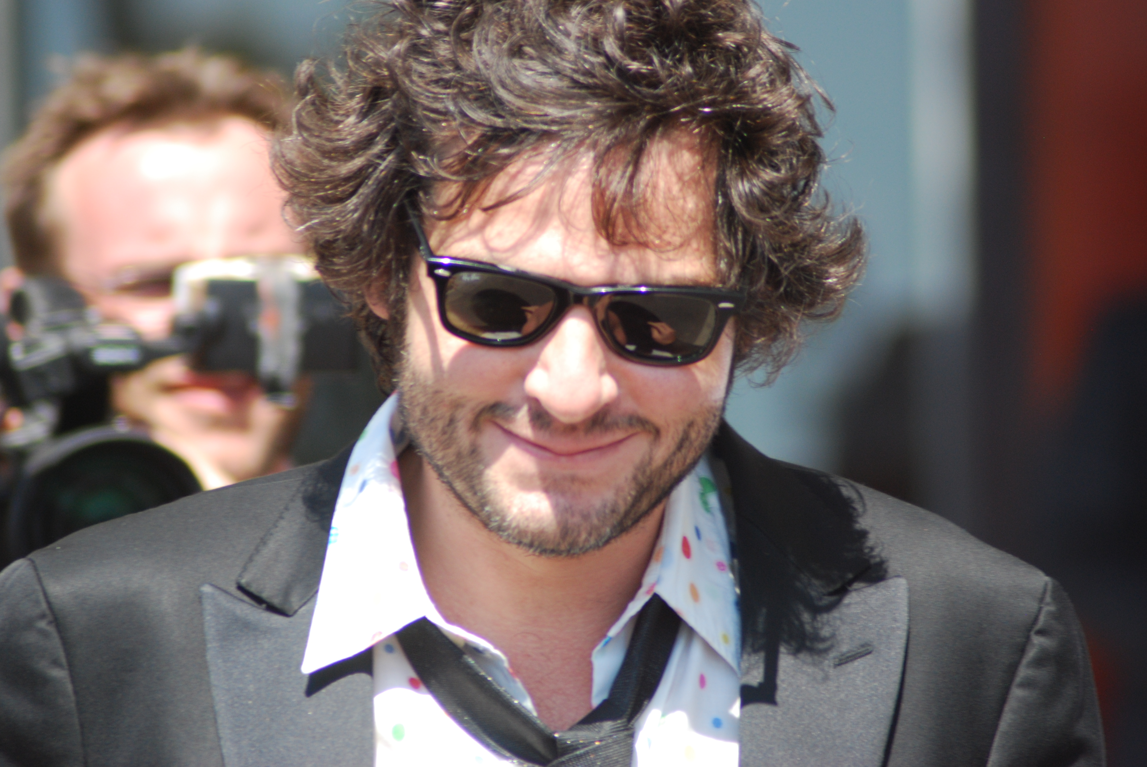 Matthieu Chedid at the Cannes Film Festival in 2010.